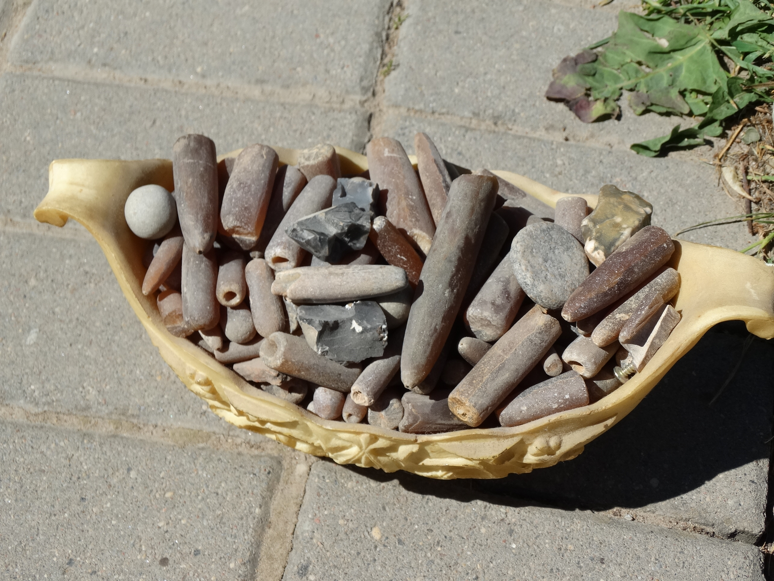 Žibuliai, geological discoveries, Raseiniai District, Lithuania